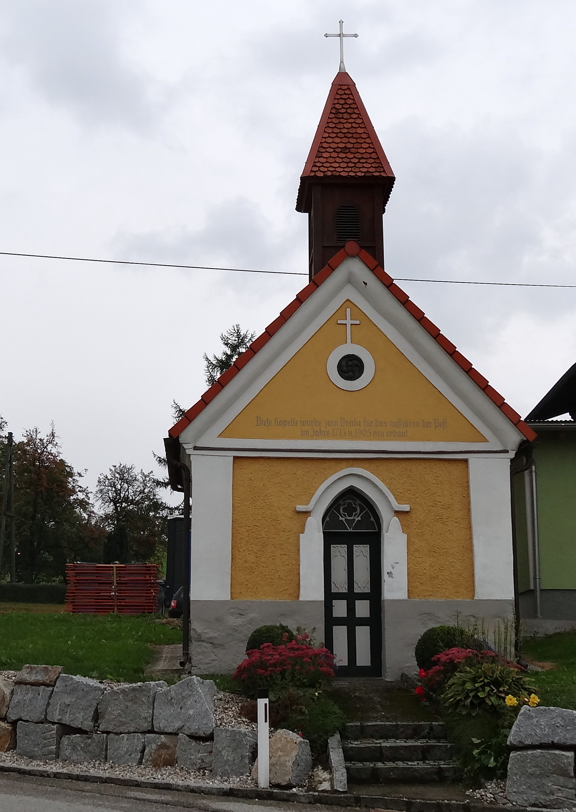 Black death chapel